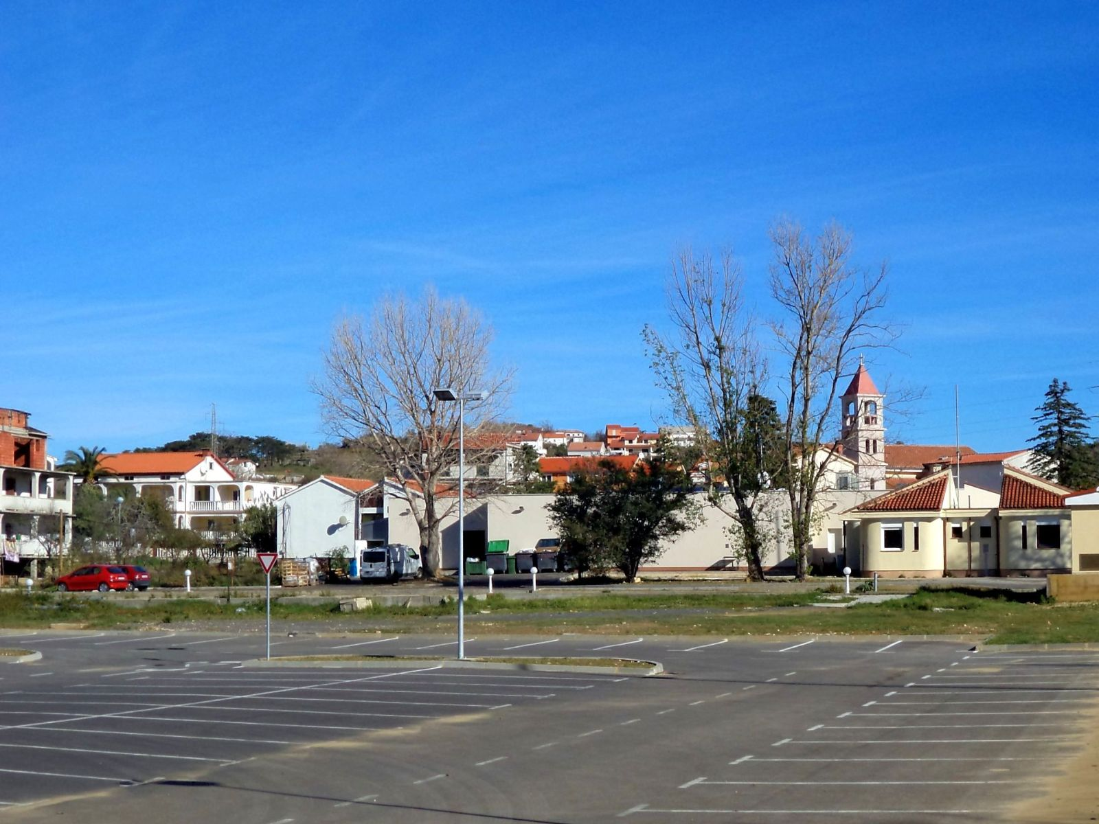 Parking in the center of Lopar.